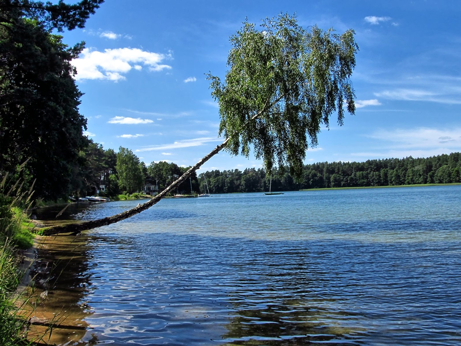 Sloping birch on the lake shore